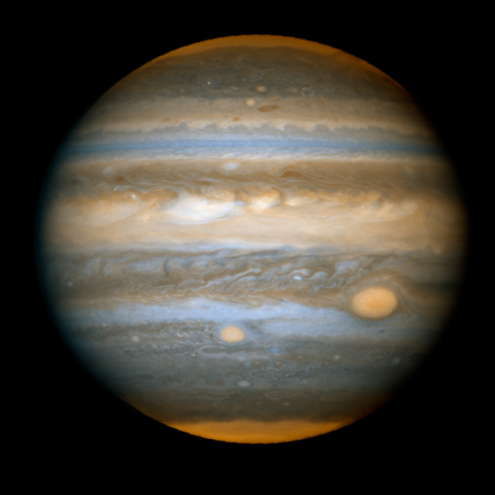 Image of the full disk of Jupiter from ACS/WFC at 18:42 UT, April 16, 2006. Two filters are shown in red/orange (F892N, near-IR strong methane band) and blue/cyan (F502N continuum/cyan light). The Hubble group that conducted this observation is led jointly by Imke de Pater (UCB Astronomy) and Philip Marcus (UCB Mechanical Engineering). Other team members are Michael Wong (UCB Astronomy), Xylar Asay-Davis (UCB Mechanical Engineering), and Christopher Go, an amateur astronomer with the Astronomical League of the Philippines.